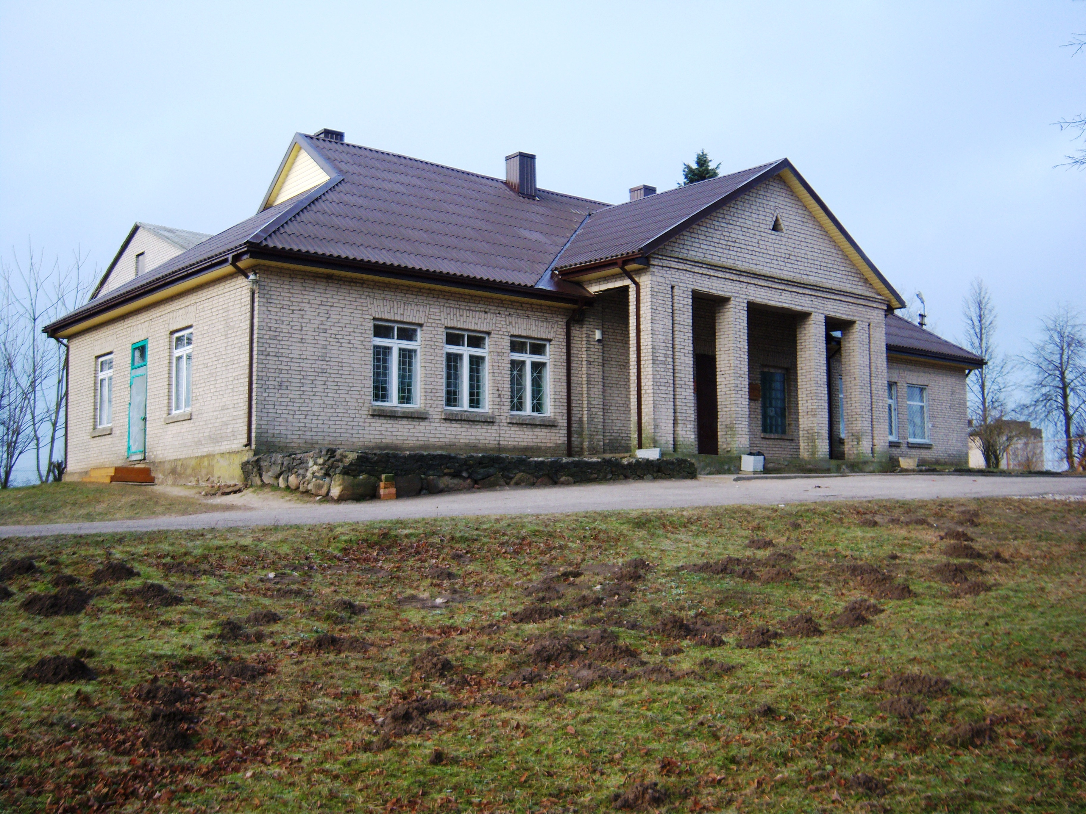 Mockaičiai centre of culture, Kelmė District, Lithuania